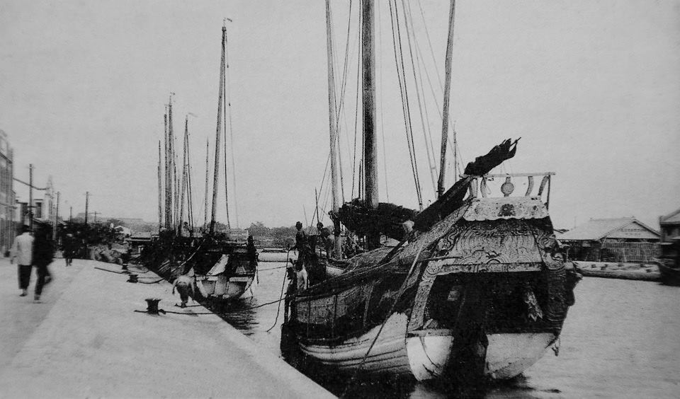 Tainan Canal, Taiwan under Japanese rule (1895-1945).